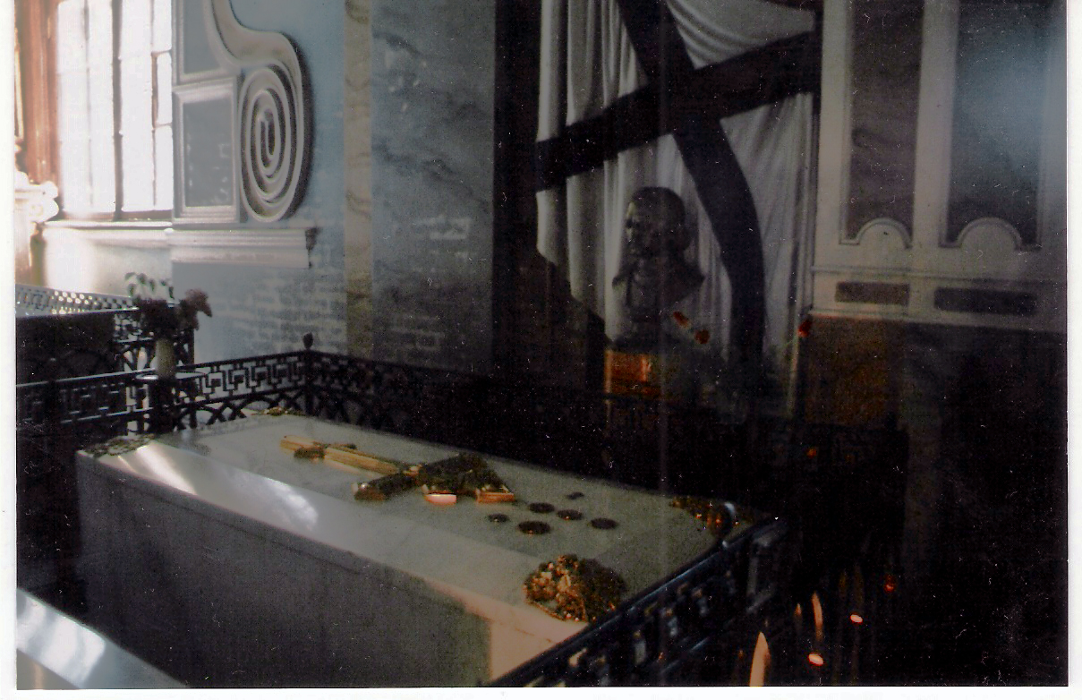 The tomb of Peter the Great (?).